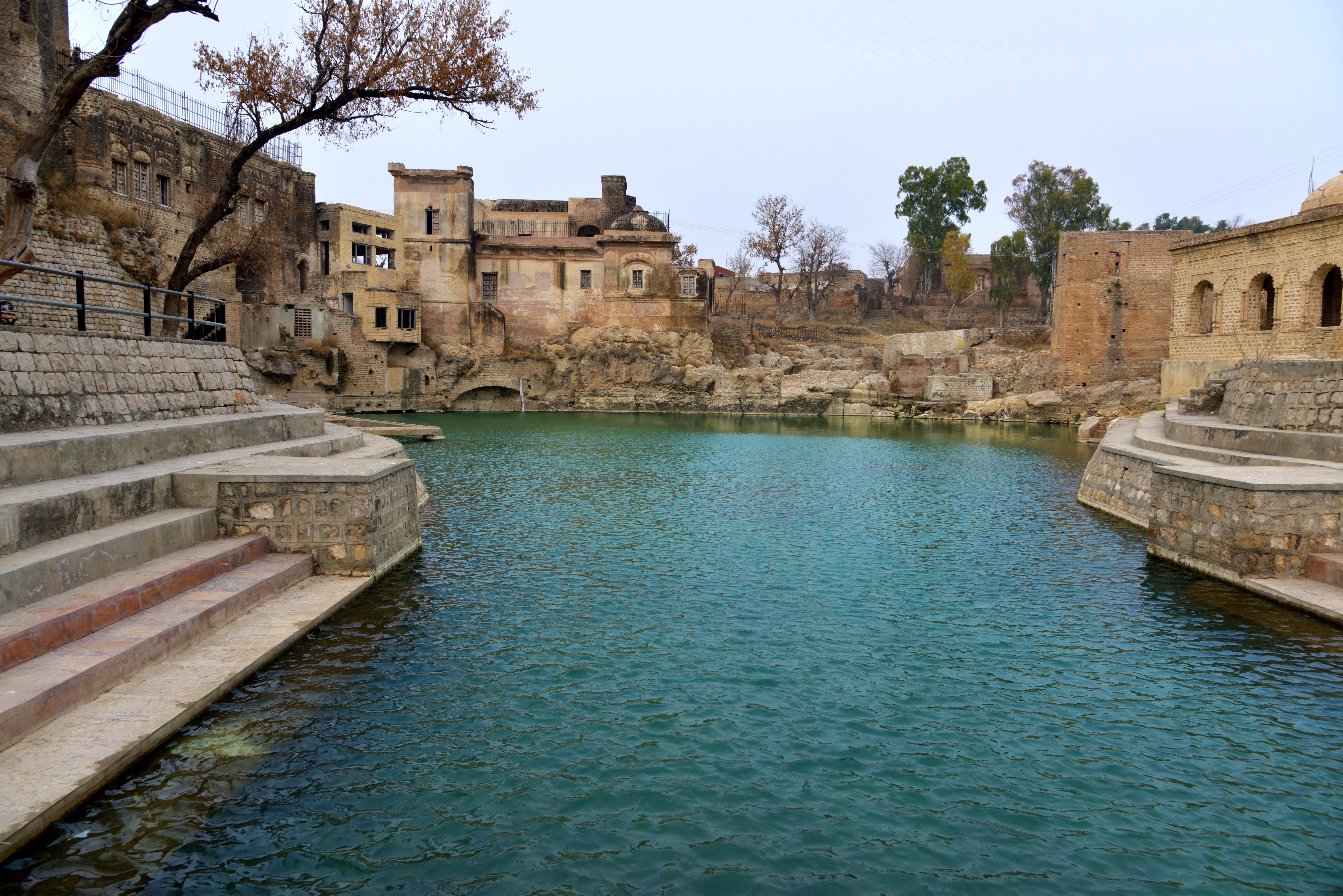 A view of the natural spring lake at Katasraj, Punjab, Pakistan.